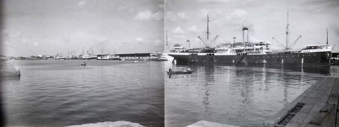 KPM steamers at Batavia's harbour Tanjung Priok